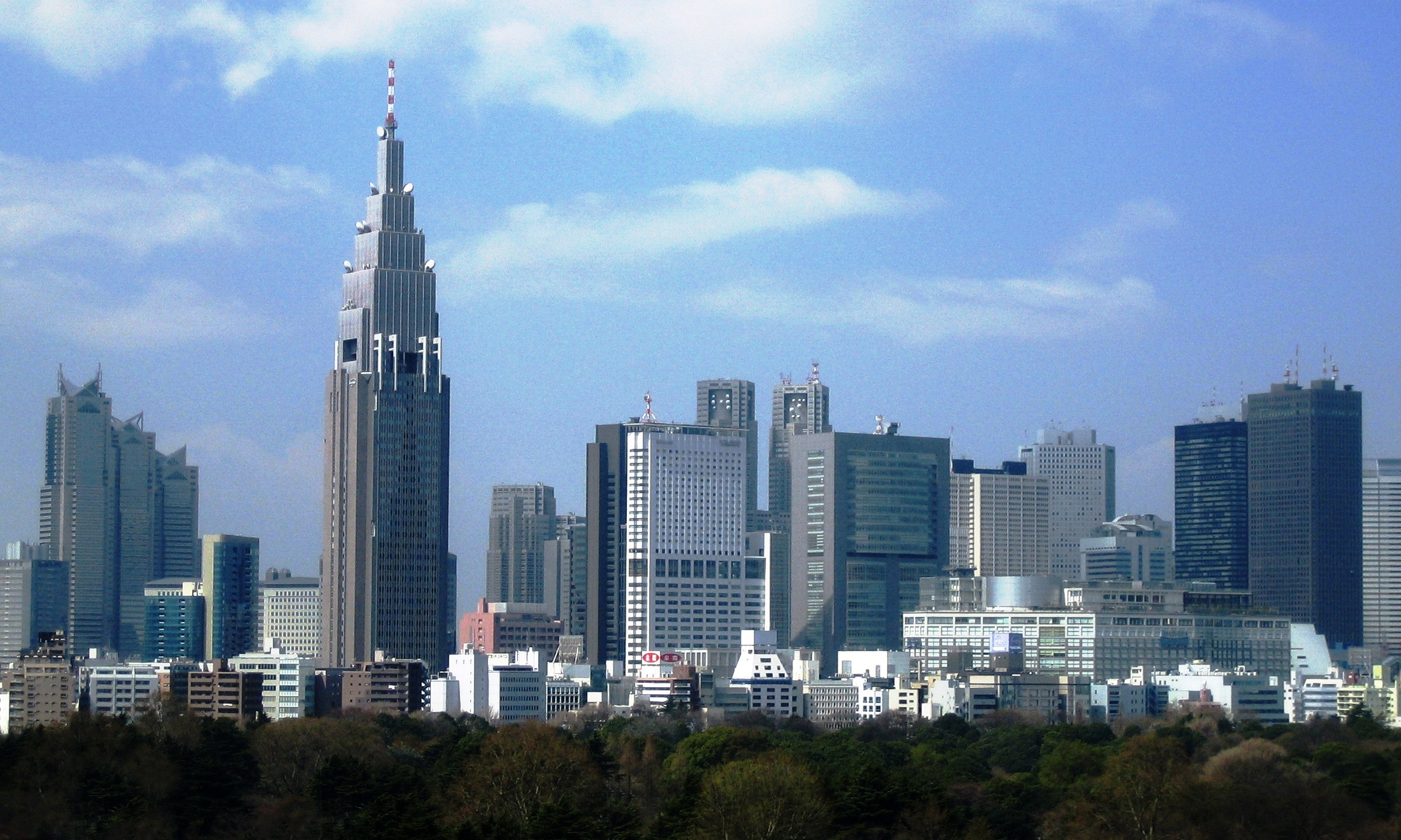 Skyscrapers of Shinjuku, Tokyo